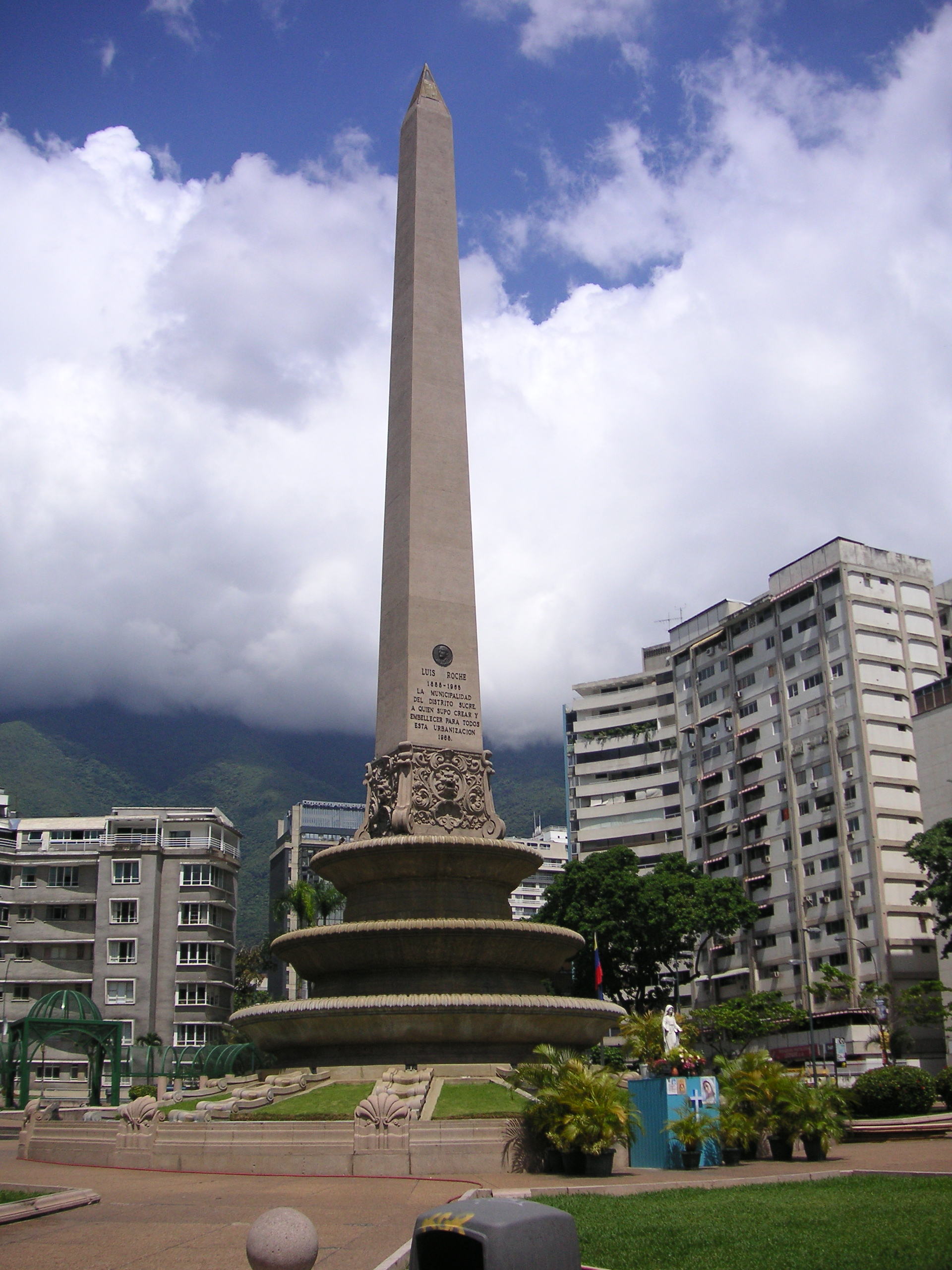 Luis Roche Obelisk, Caracas, Venezuela